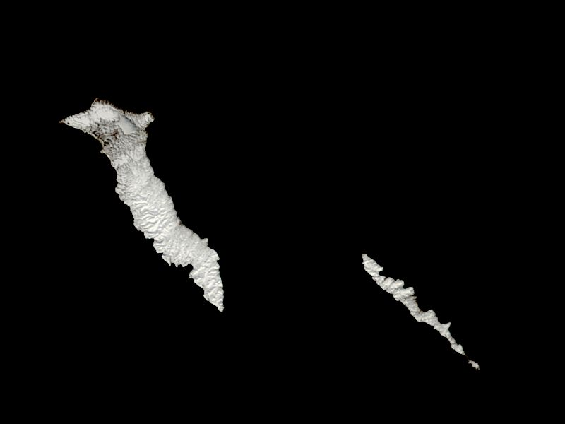 Terra MODIS satellite image of Commander or Komandorski Islands, Russia.